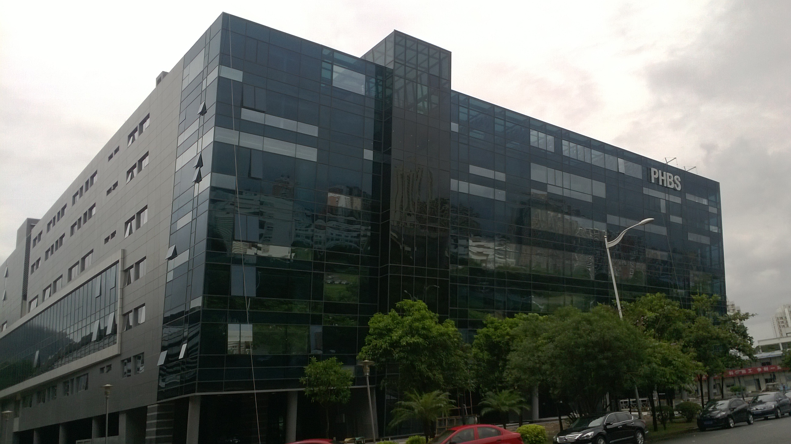 The building of Peking University HSBC Business School